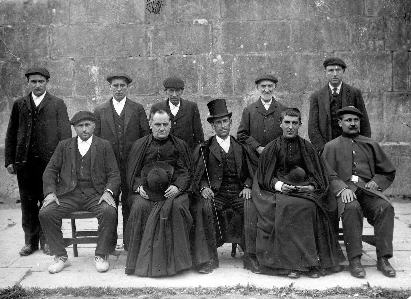 Major and priest of Lizartza